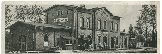 Train station in Szydłów, Railway line 287 (Poland), Railway line 329 (Poland)